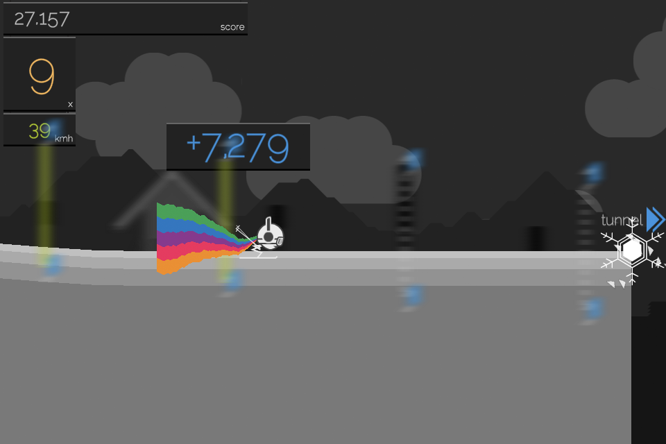 Screenshot from Solipskier